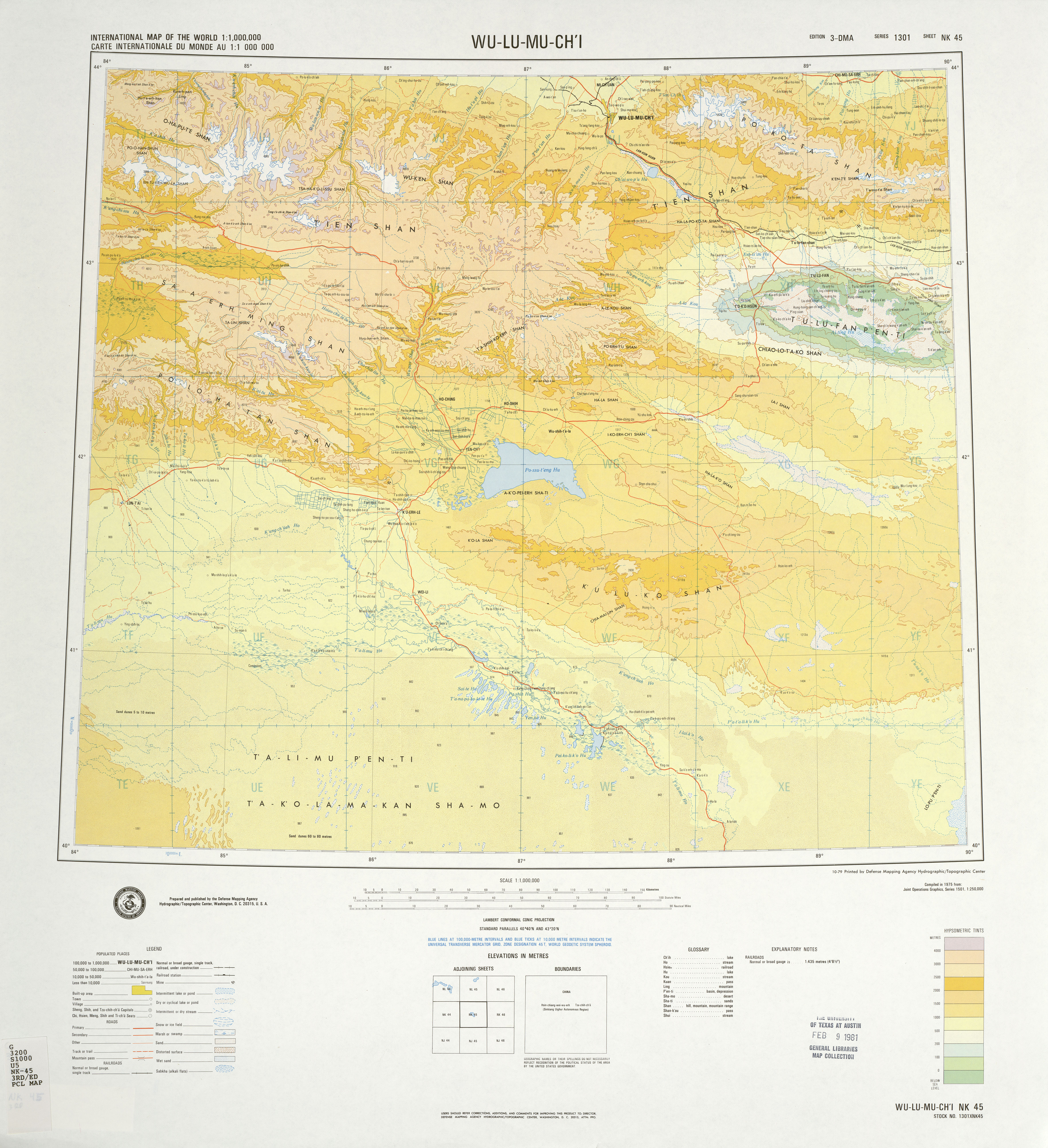 Map of Urumqi (Wu-lu-mu-ch'i) area, Xinjiang, China